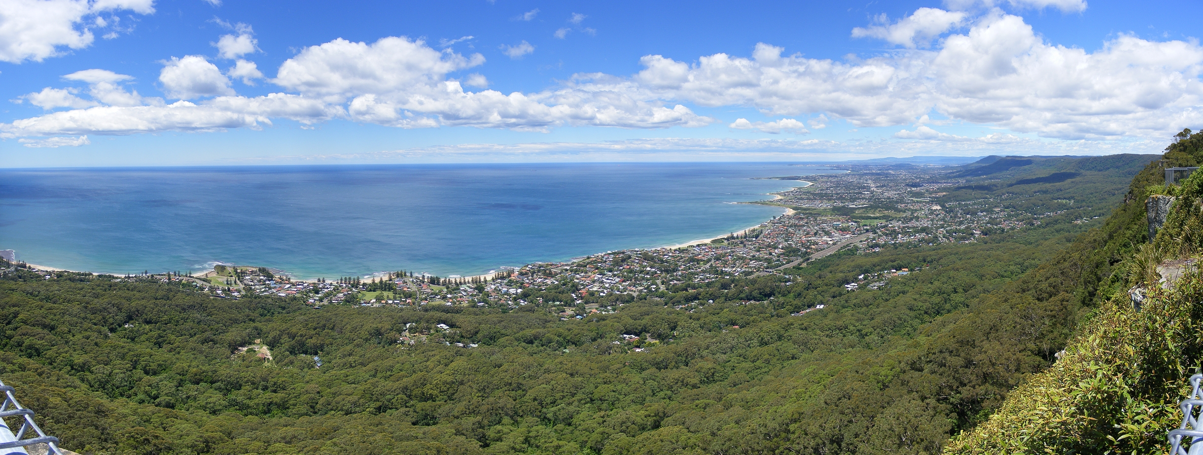 The view from Sublime Point look out over looking the towns of Thirroul and Wollongong